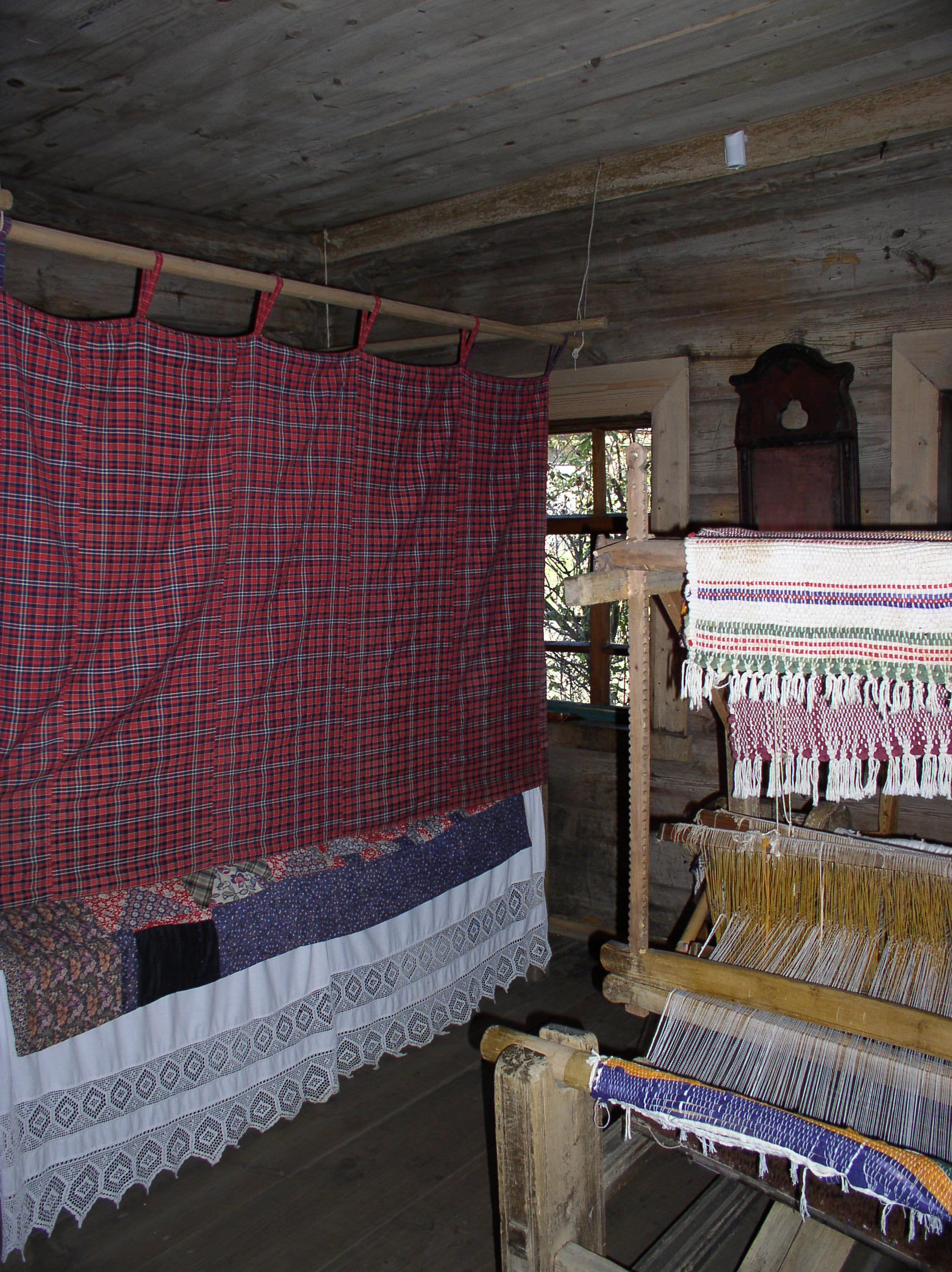 House of peasant of average means. Museum of Wooden Architecture and Peasant Life in Suzdal, Russia.